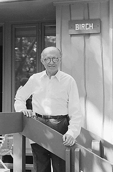 Menachem Begin poses at Camp David, 09/09/1978